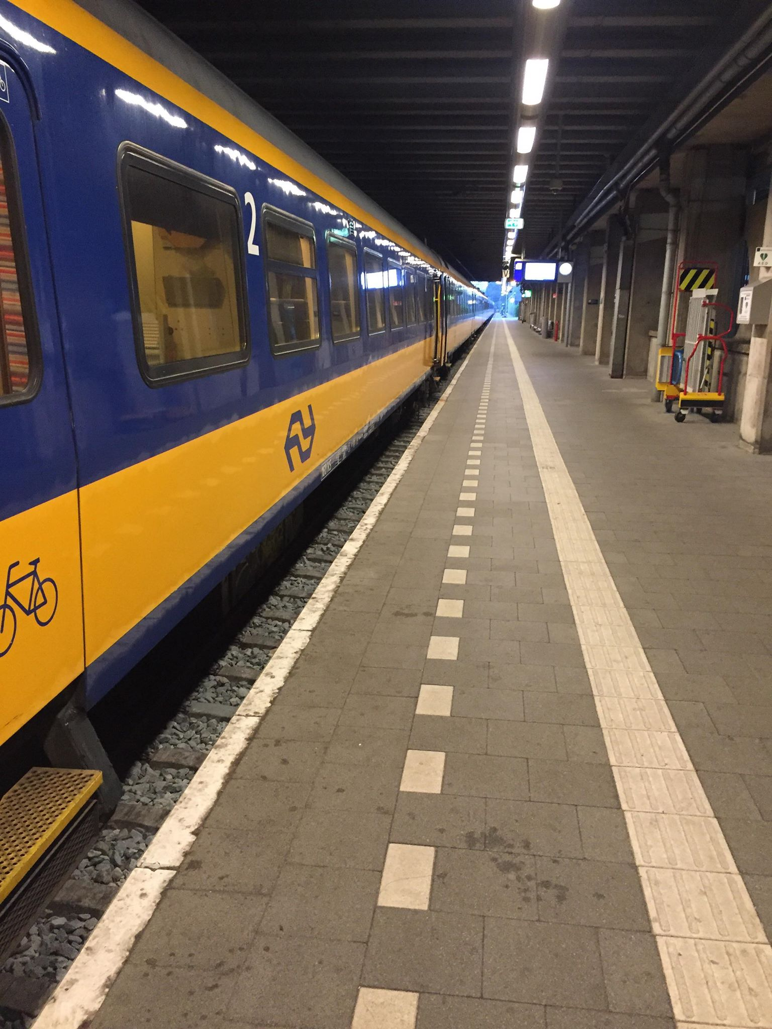 Morning train from The Hague to Eindhoven